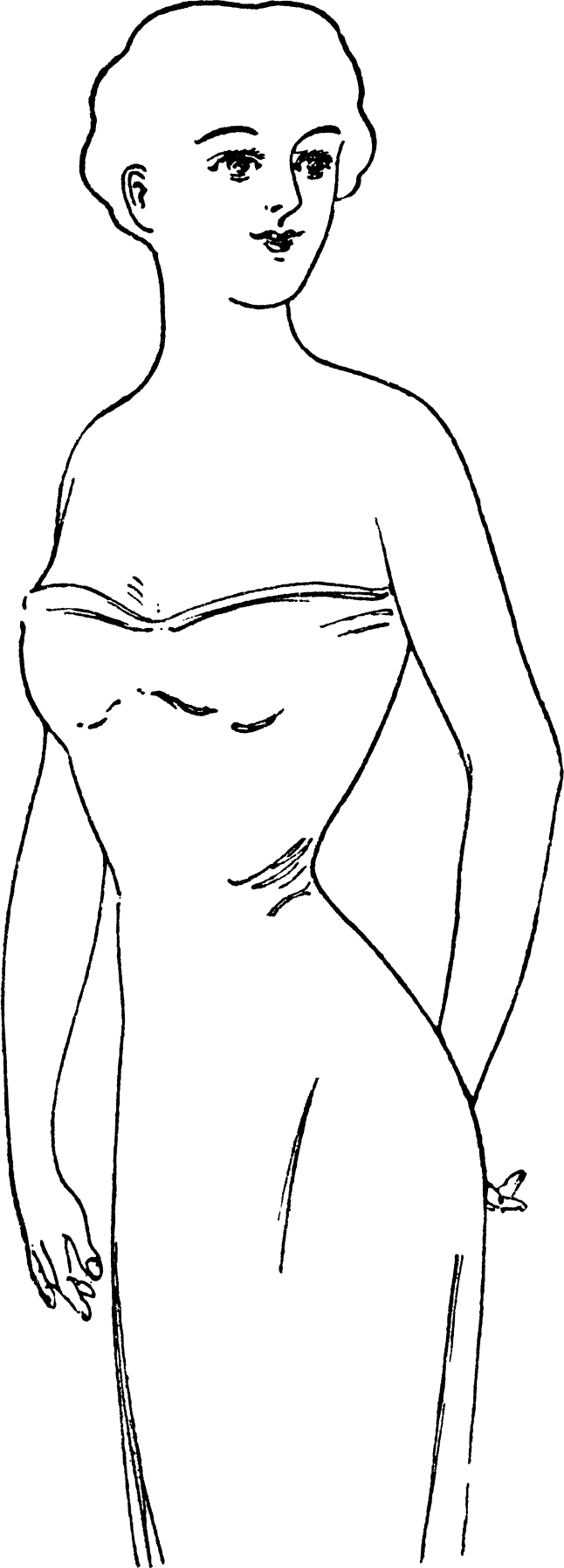 Instructions in Spirella Corsetry